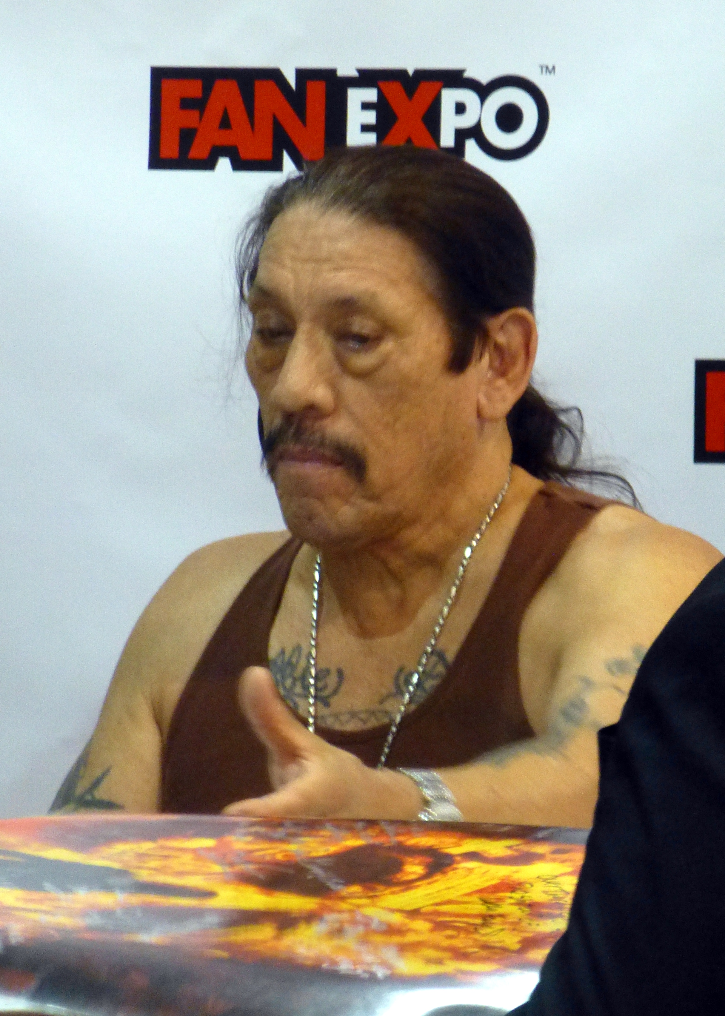 Fan Expo Canada in Toronto in 2015.